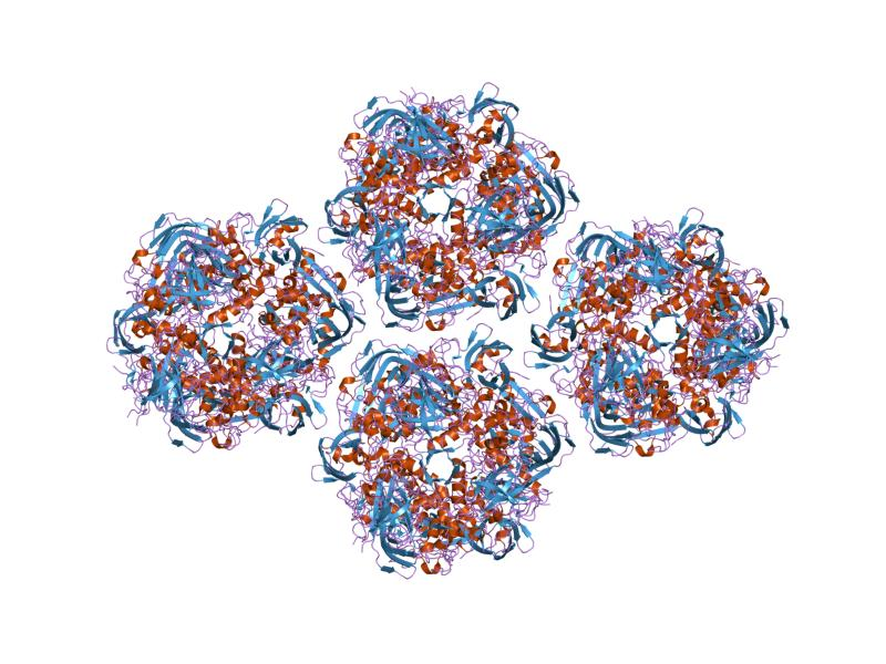 Cartoon representation of the molecular structure of protein registered with 2bvi code.